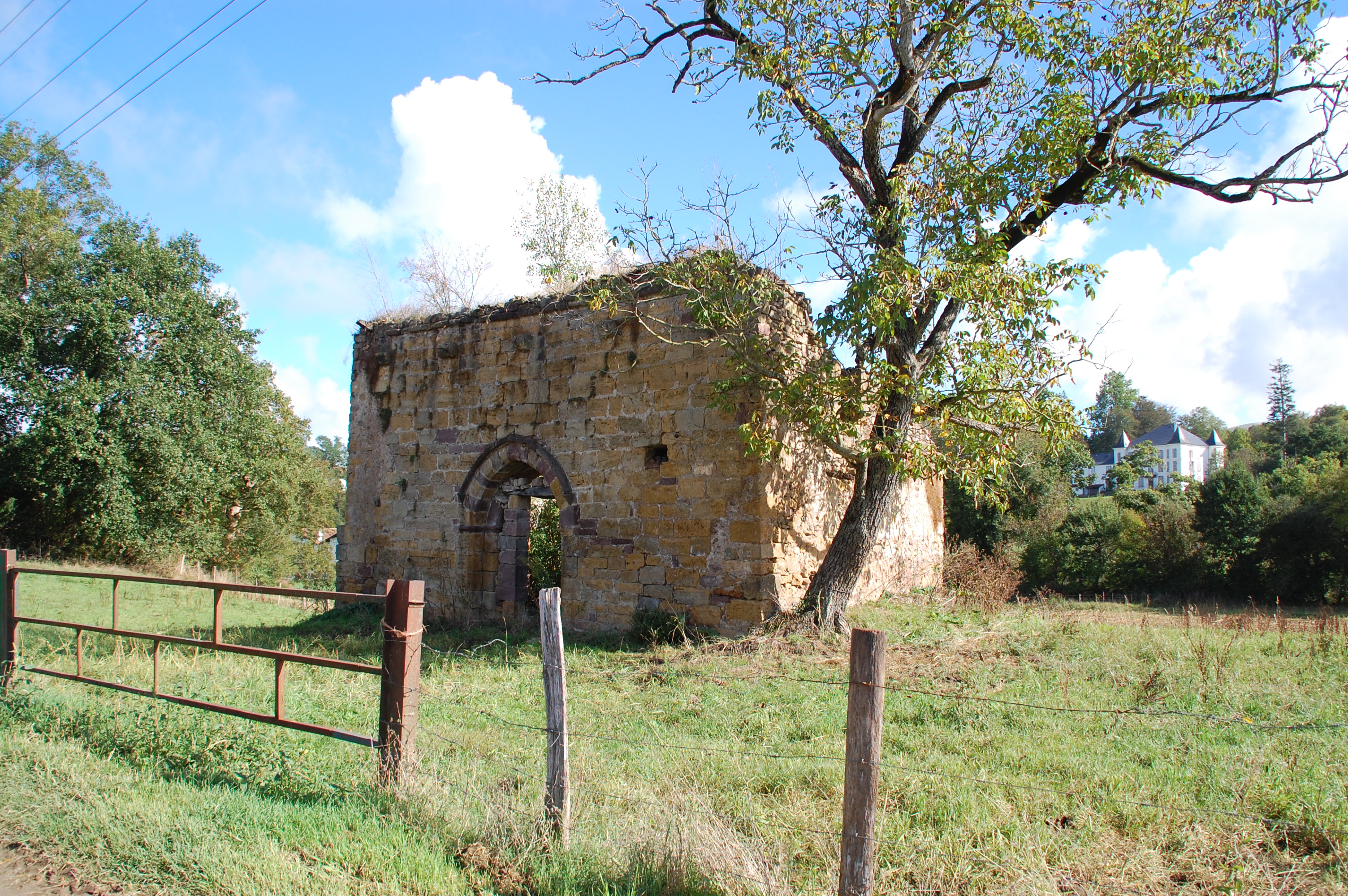 Chapelle Saint-Jean-Baptiste d'Urrutia